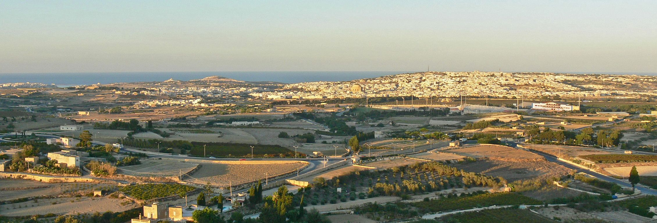 Ta' Qali seen from Mdina, Malta